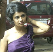 Manasi Rachh on the sets of the film Charlie Kay Chakkar Mein